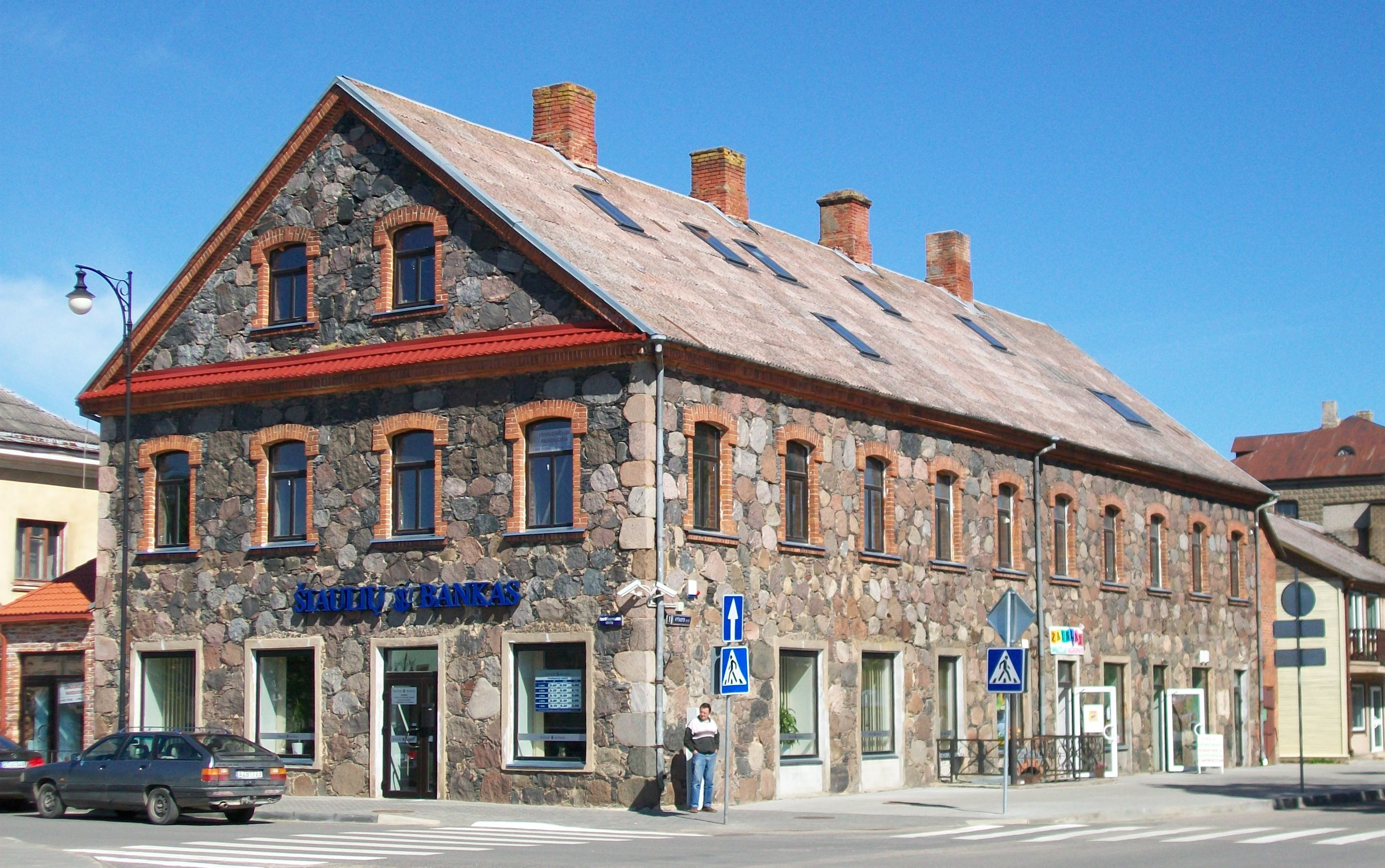 Old stone building in Rokiškis, Lithuania